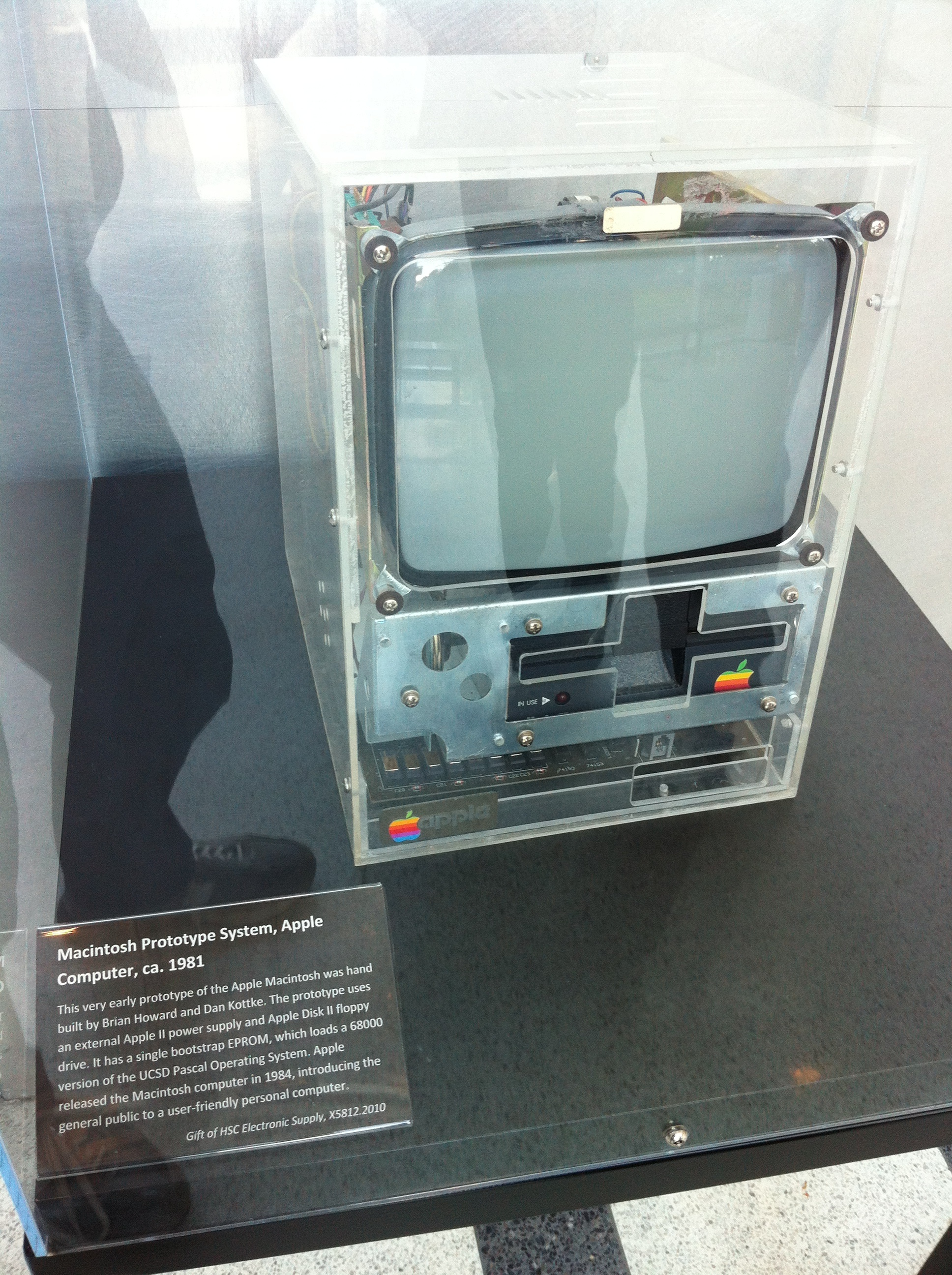 Early Macintosh Prototype Computer History Museum Mountain View California